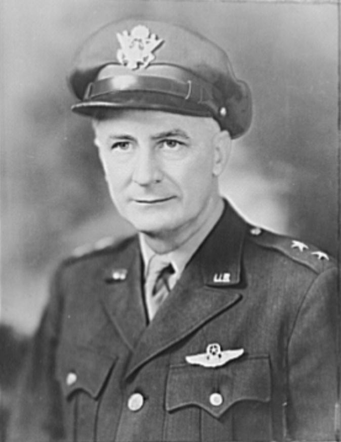 Major General Henry J. F. Miller. Degummed for leaking the date of the D-Day invasion.